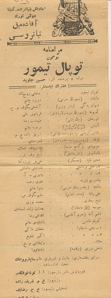 Programm of play "Lame Timur" (by Huseyn Javid)